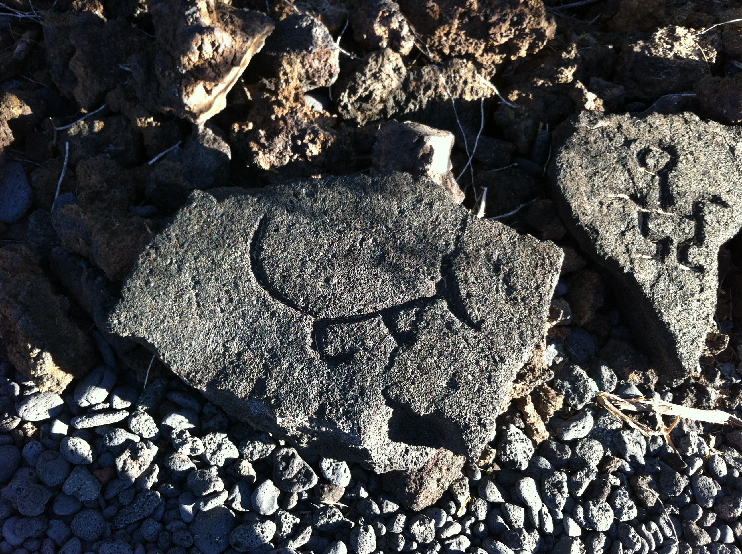 Hawaiian petroglyph of a dog. Taken at the Puako Petroglyph Park, near Waimea.